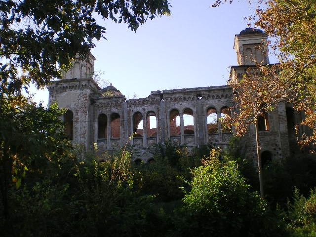 The Vidin Synagogue